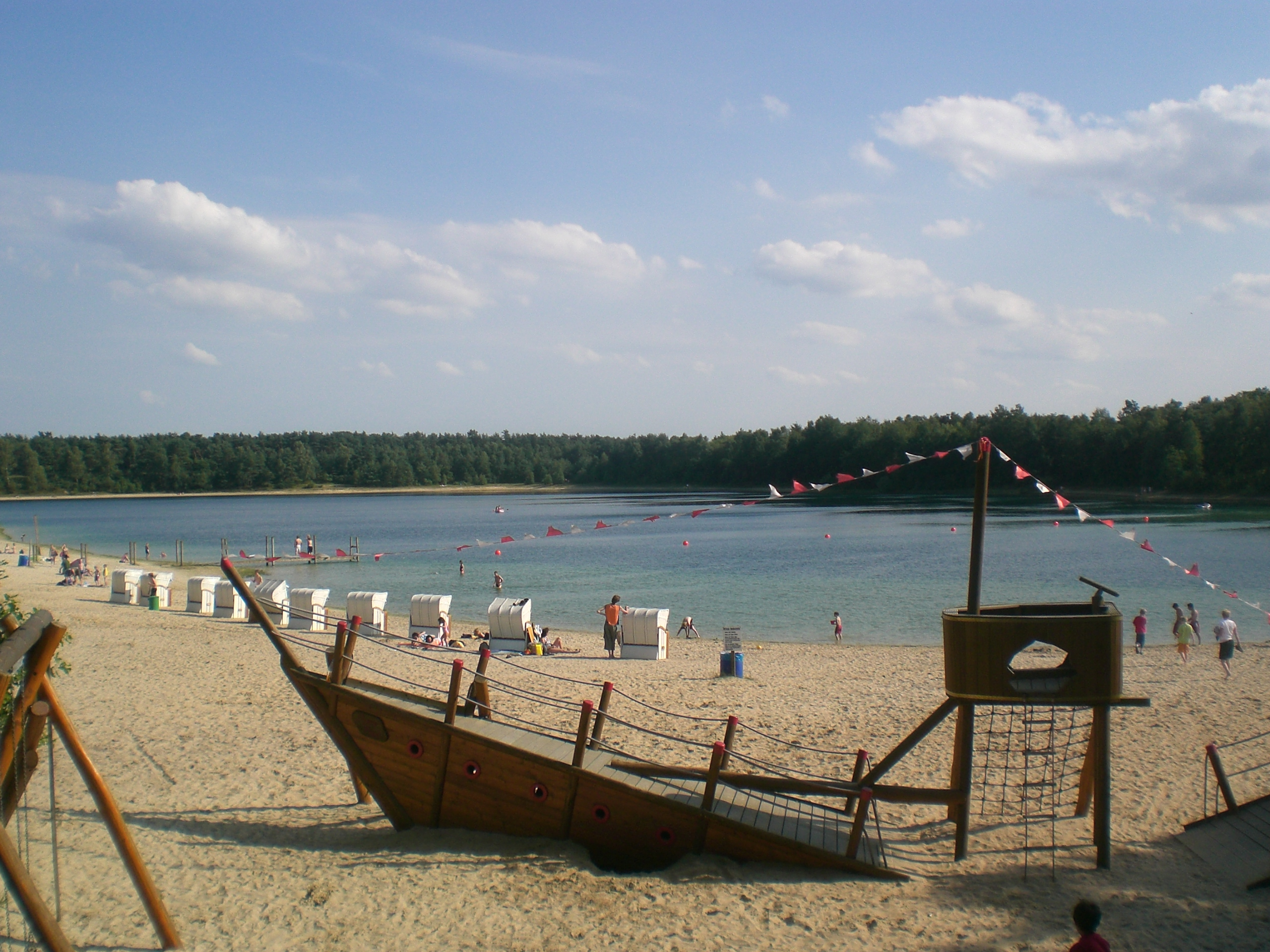 Lake "Heidesee" in Holdorf, Lower Saxony, Germany